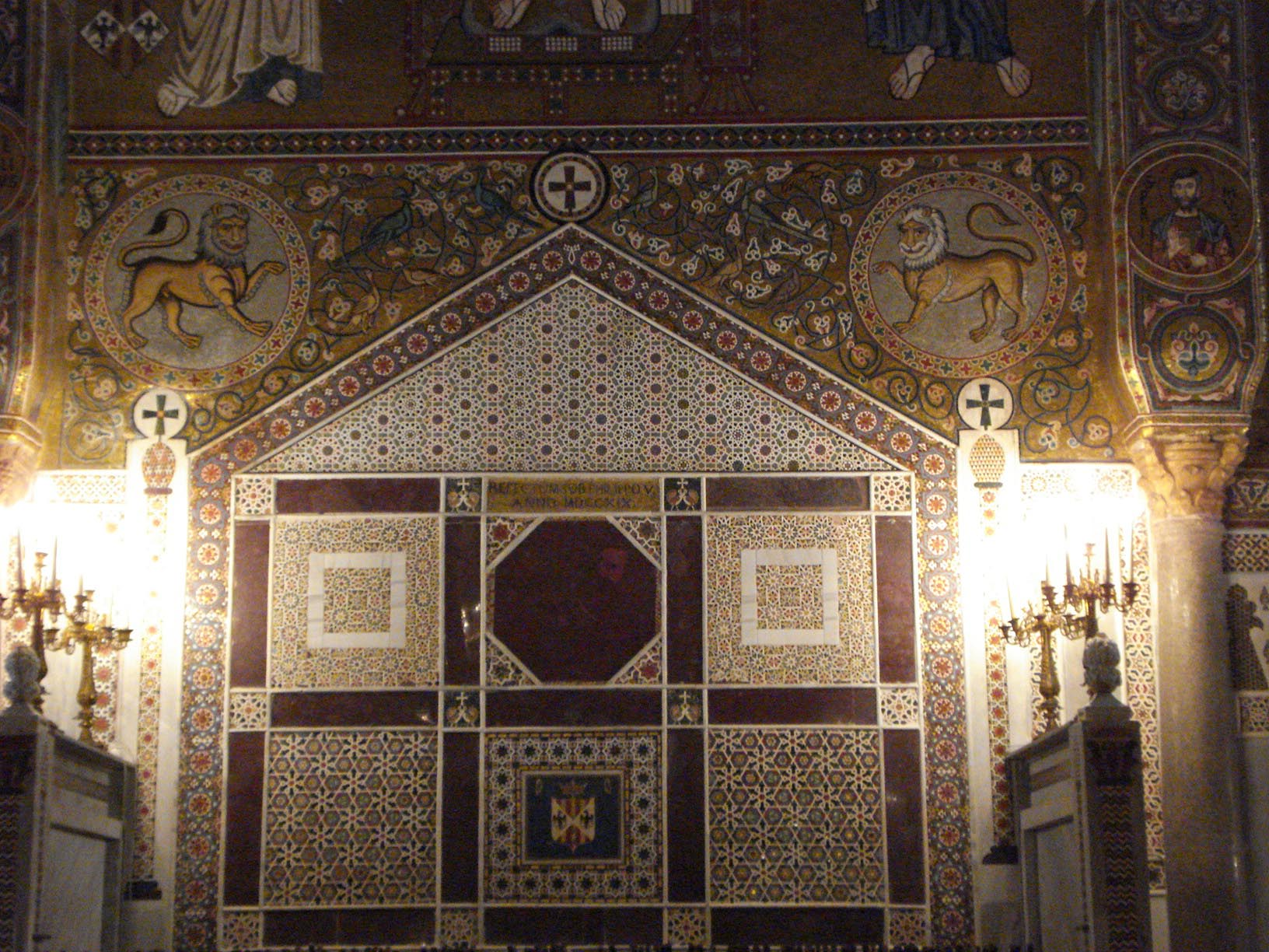 Royal throne (Palatine Chapel)